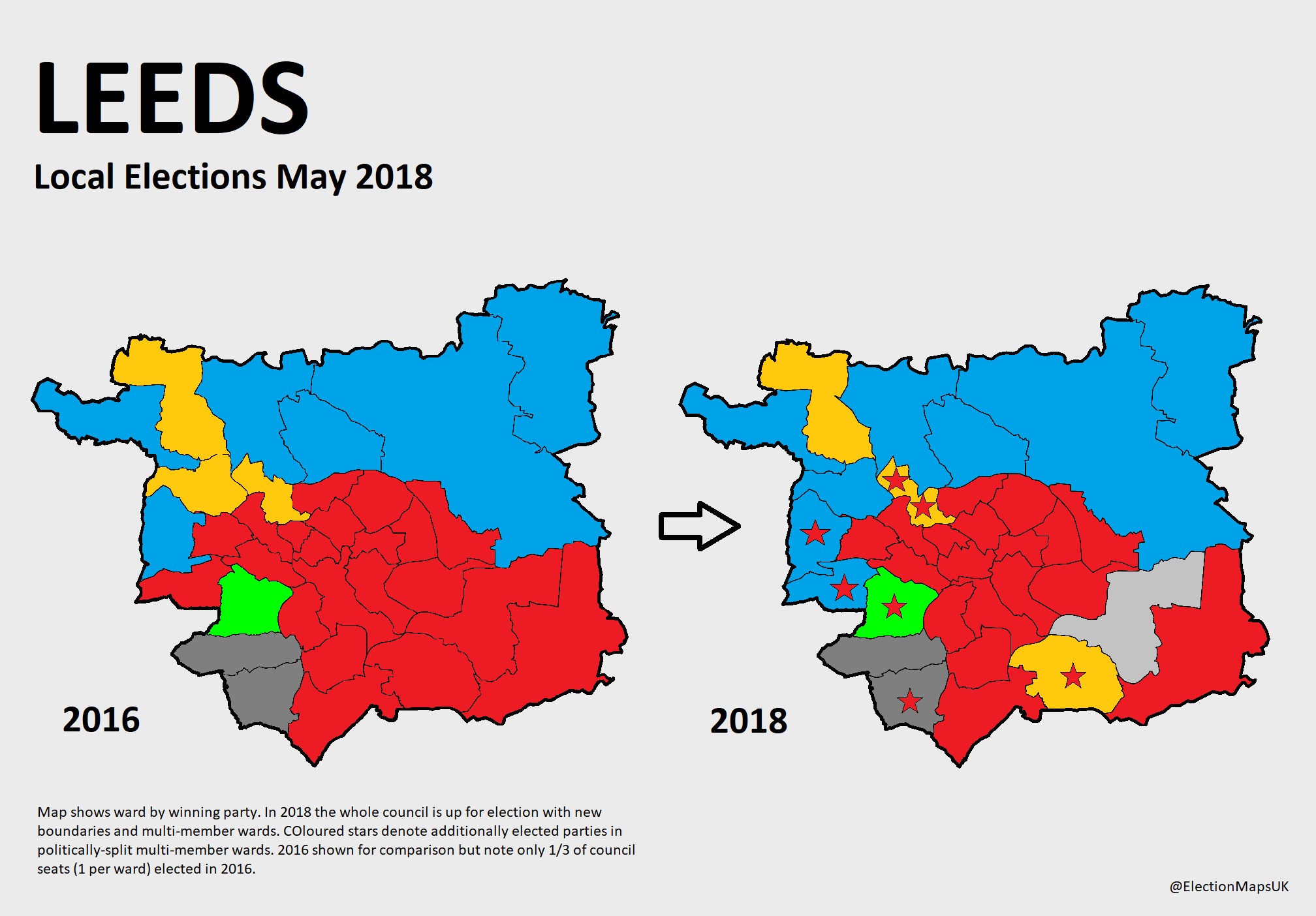 A local election map created by Election Maps UK